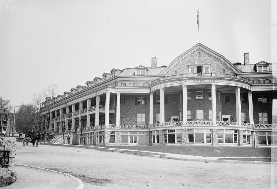 Clifton Hotel, Niagara Falls, Canada (LOC) Bain News Service,, publisher. Clifton Hotel, Niagara Falls was site of the 1914 ABC Conference [between ca. 1910 and ca. 1915] 1 negative : glass ; 5 x 7 in. or smaller. Notes: Title from unverified data provided by the Bain News Service on the negatives or caption cards. Forms part of: George Grantham Bain Collection (Library of Congress). Subjects: Niagara Falls, Canada Format: Glass negatives. Repository: Library of Congress, Prints and Photographs Division, Washington, D.C. 20540 USA, General information about the Bain Collection is available at Persistent URL: Call Number: LC-B2- 3047-10